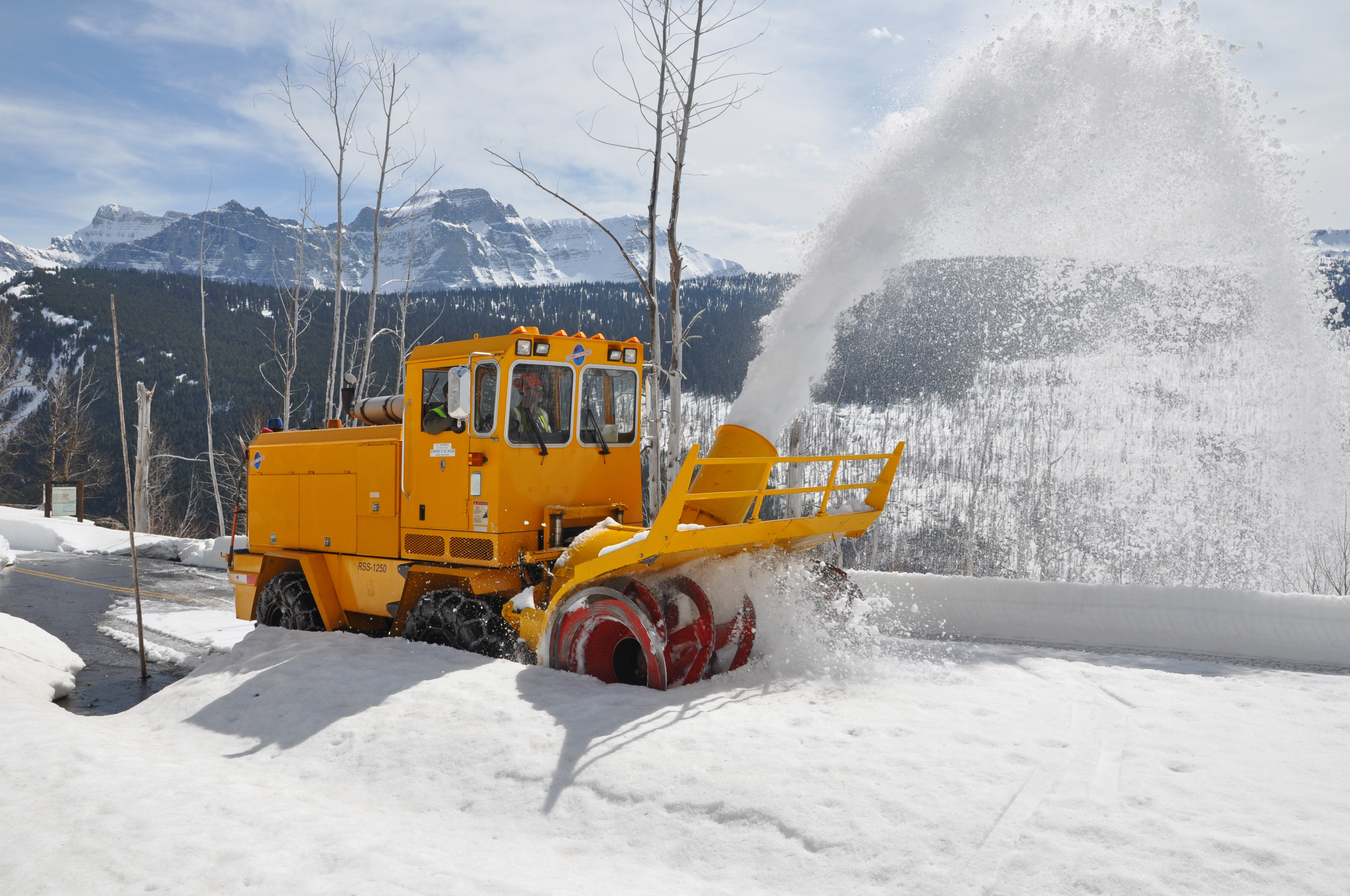 Rotary blowing snow from the Loop